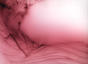 Photo taken in 2003